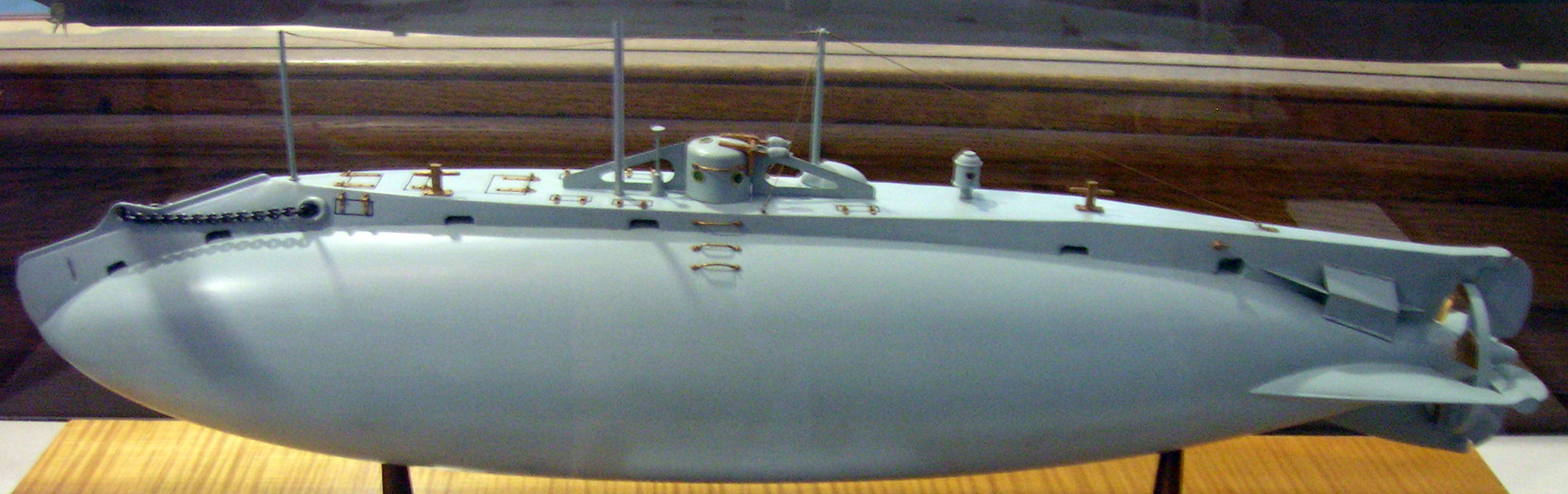 Holland no1 submarine, the first british submarine. Model by Vickers-Armstrong.